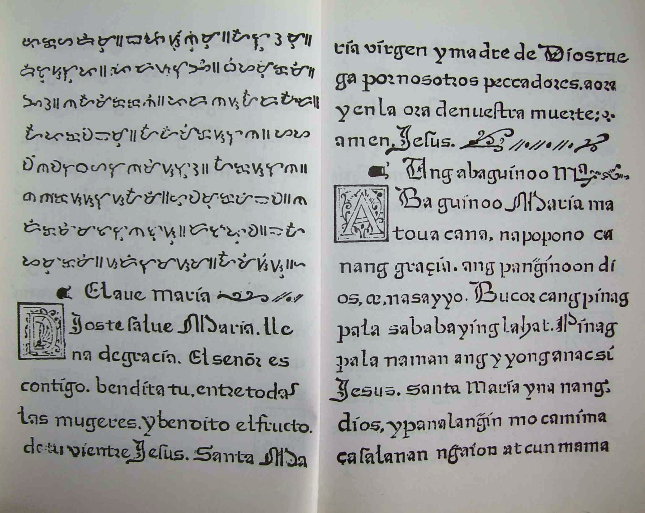 Doctrina Christiana Espanola Y Tagala p8-9, Manila, 1593.